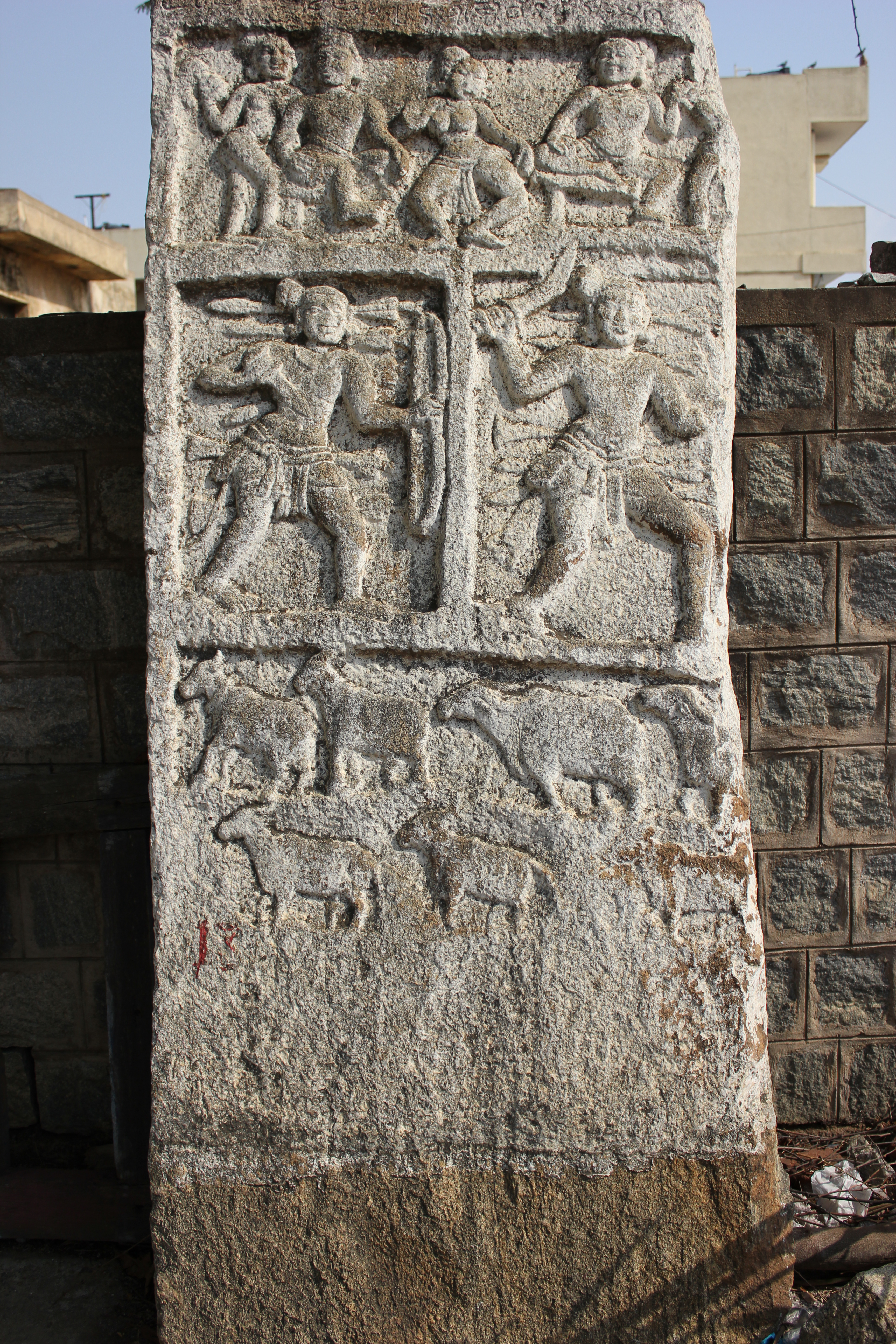 This photograph was taken by me at the Naganatheshvara (or Naganatheshwara) temple in Begur, a suburb of Bengaluru city (Bangalore) in Karnataka state, India. The complex contains multiple shrines and these show architectural features of the Western Ganga Dynasty of Talakad and later additions by the Chola Dynasty.